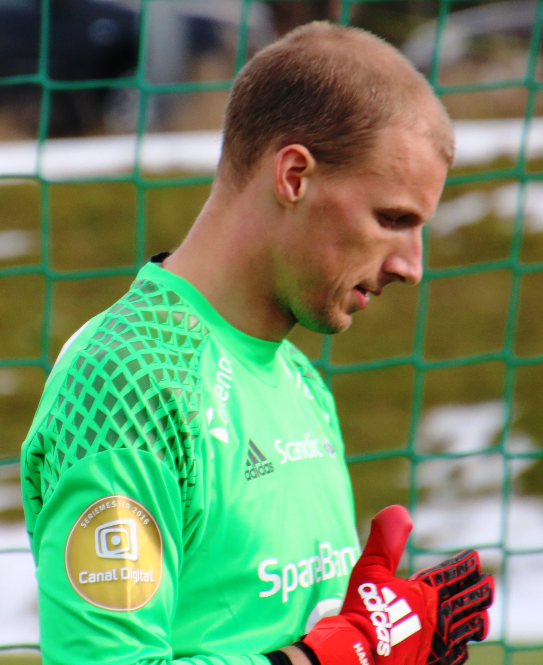 André Hansen